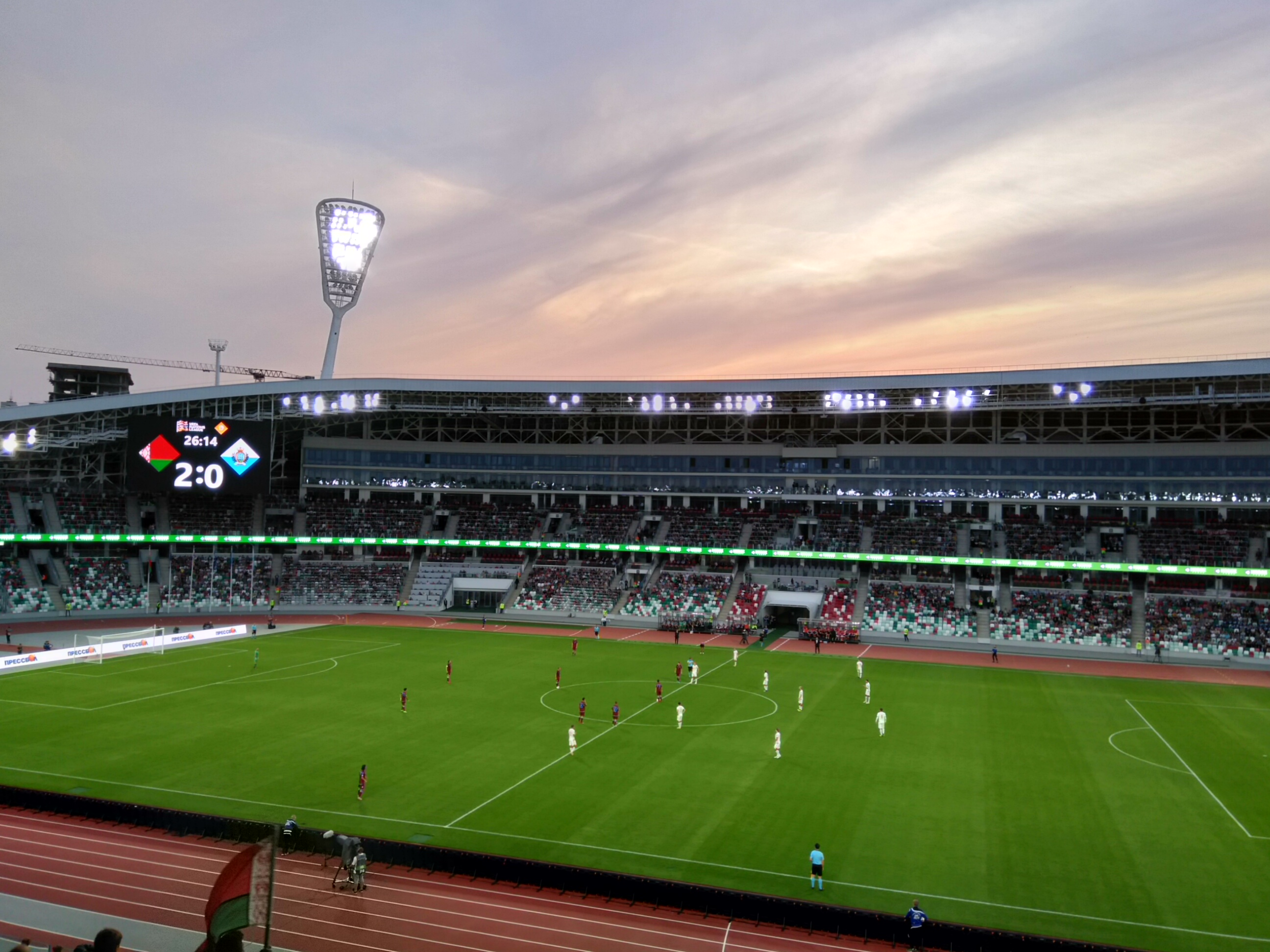 UEFA Nations League match Belarus — San-Marino (08.09.2018).